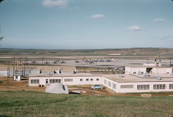 View of the U.S. Naval Air Station Port Lyautey near Kenitra, Morocco, circa in the late 1950s or early 1960s.